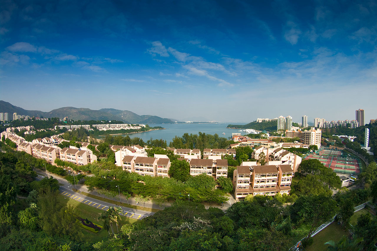 Discovery Bay